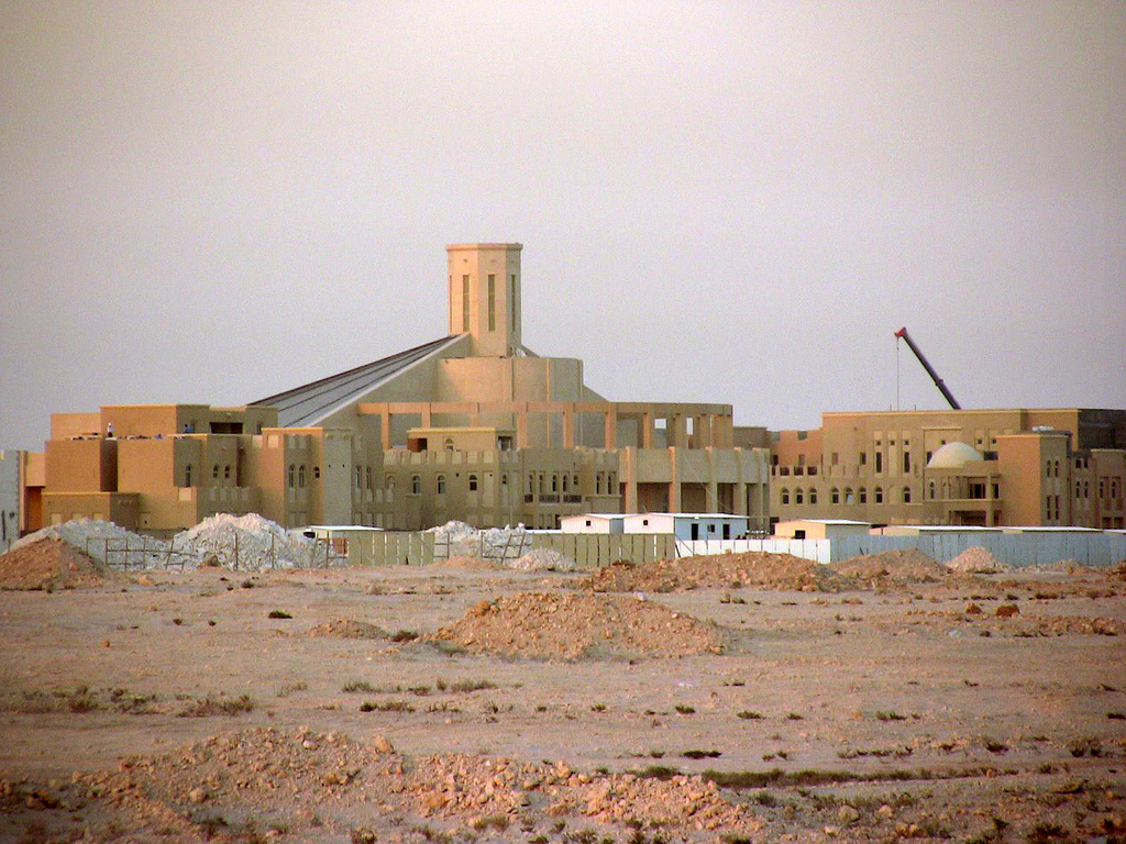 Doha, Qatar — The country's first church, Our Lady of the Rosary, opens to the public on Saturday, March 15. As per government request, the outside of building bears no crosses, steeple or church bells. Read more at Al Jazeera